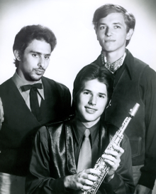 Music Projection Trio, 1970